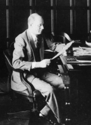 Benjamin Platt at his desk in the early 1920s.